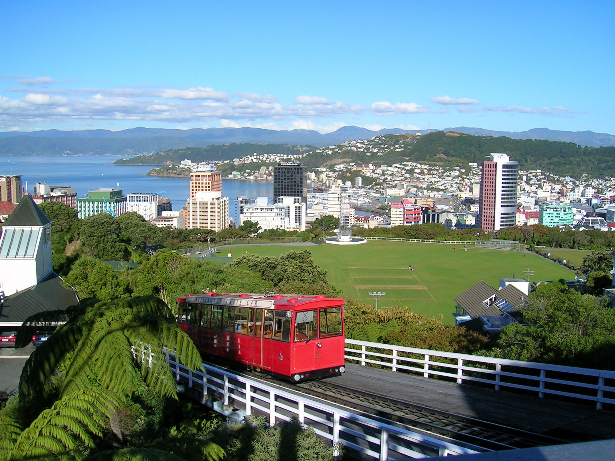 You can find a postcard of Wellington with almost this same shot on it all over New Zealand. In the foreground, the red vehicle is one of the two Wellington Cable Cars The tall red and silver building to the right is the Majestic Centre, the tallest building in Wellington. The black building in the middle is the State Insurance building (was once the BNZ Centre Building) Behind the foreground buildings is downtown Wellington. The water to the left is Port Nicholson Harbour. The mountain immediately behind the city is Mount Victoria, where many good views and photographs are had. Behind that is the Rimutaka and Orongorongo Ranges, and behind that is the Wairarapa. Wellington, New Zealand.The Classic Wellington Shot(tm)